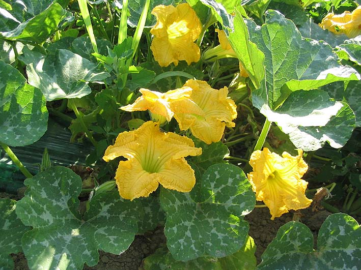 Flowers of Cucurbita moschata. Photo prise à Ille-sur-Tet le 16/07/04.